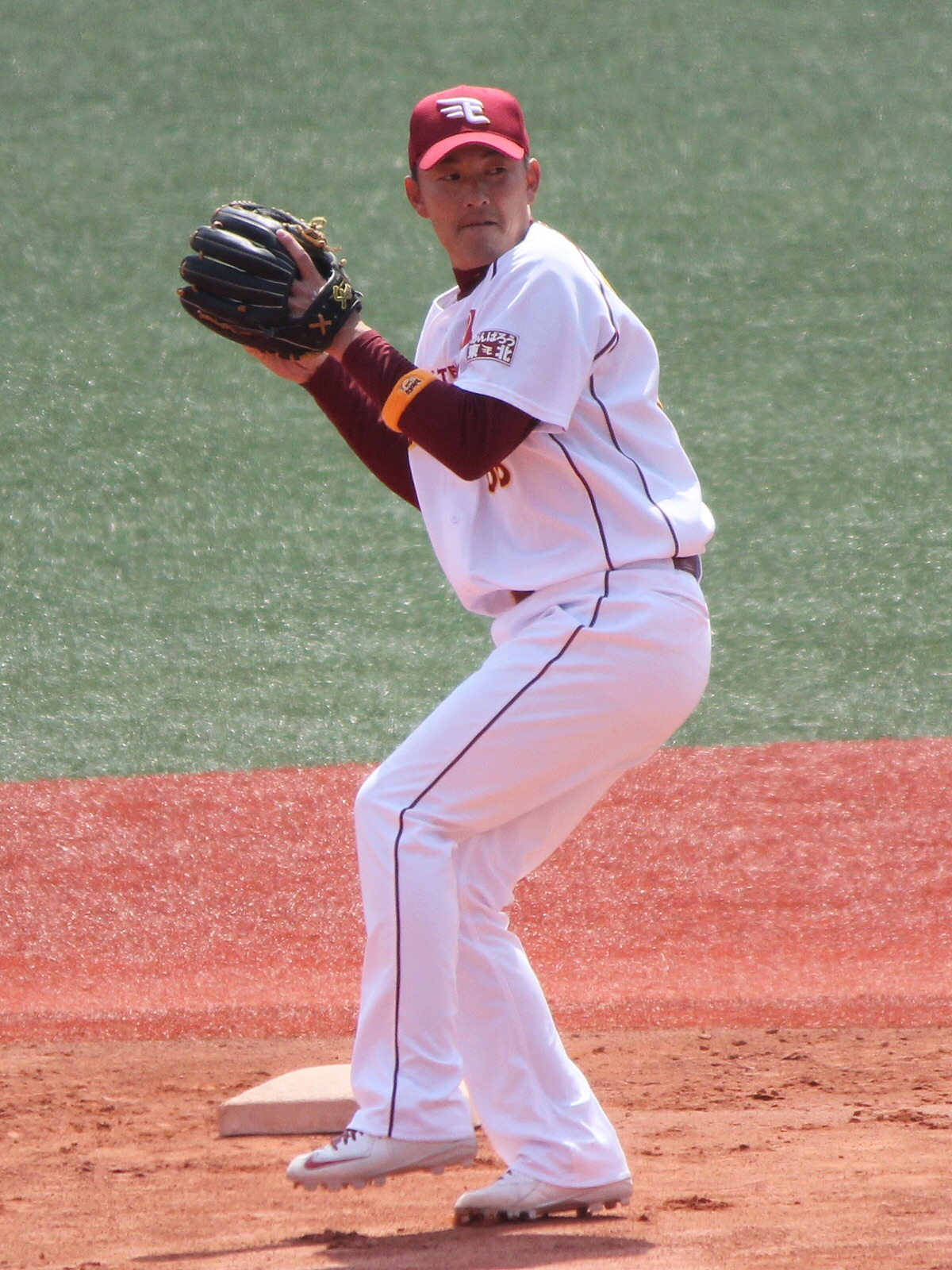 Koji Yamasaki, a Japanese baseball player.